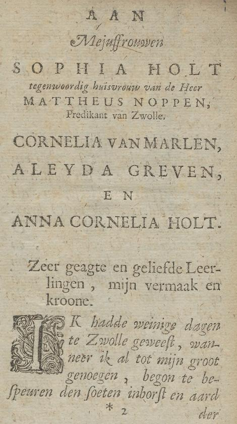 Dedication by the author Wilhelmus Beurs to his pupils [Aleida Greve, Anna Cornelia Holt, Sophia Holt, and Cornelia van Marle. From his 1692 book on the art of painting and paint-mixing called De groote waereld in 't kleen geschildert, of schilderagtigtafereel van 's weerelds schilderyen, kortelijk vervat in sesboeken, verklarende de hooftverwen, haare verscheidemengelingen in oly, en der zelver gebruik